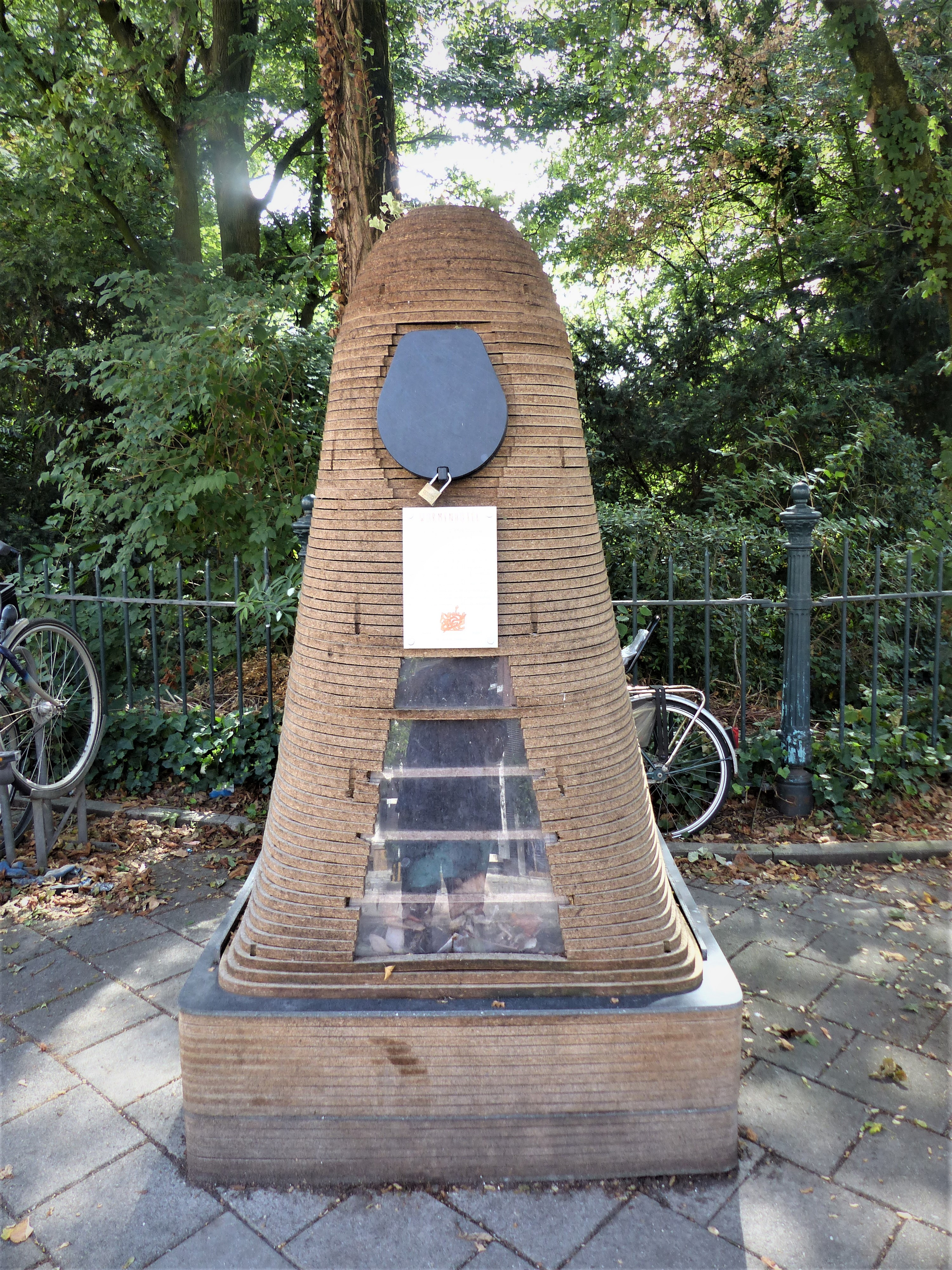 At the Sarphatipark on the 14th of August, 2018. Amsterdam, the Kingdom of the Netherlands.